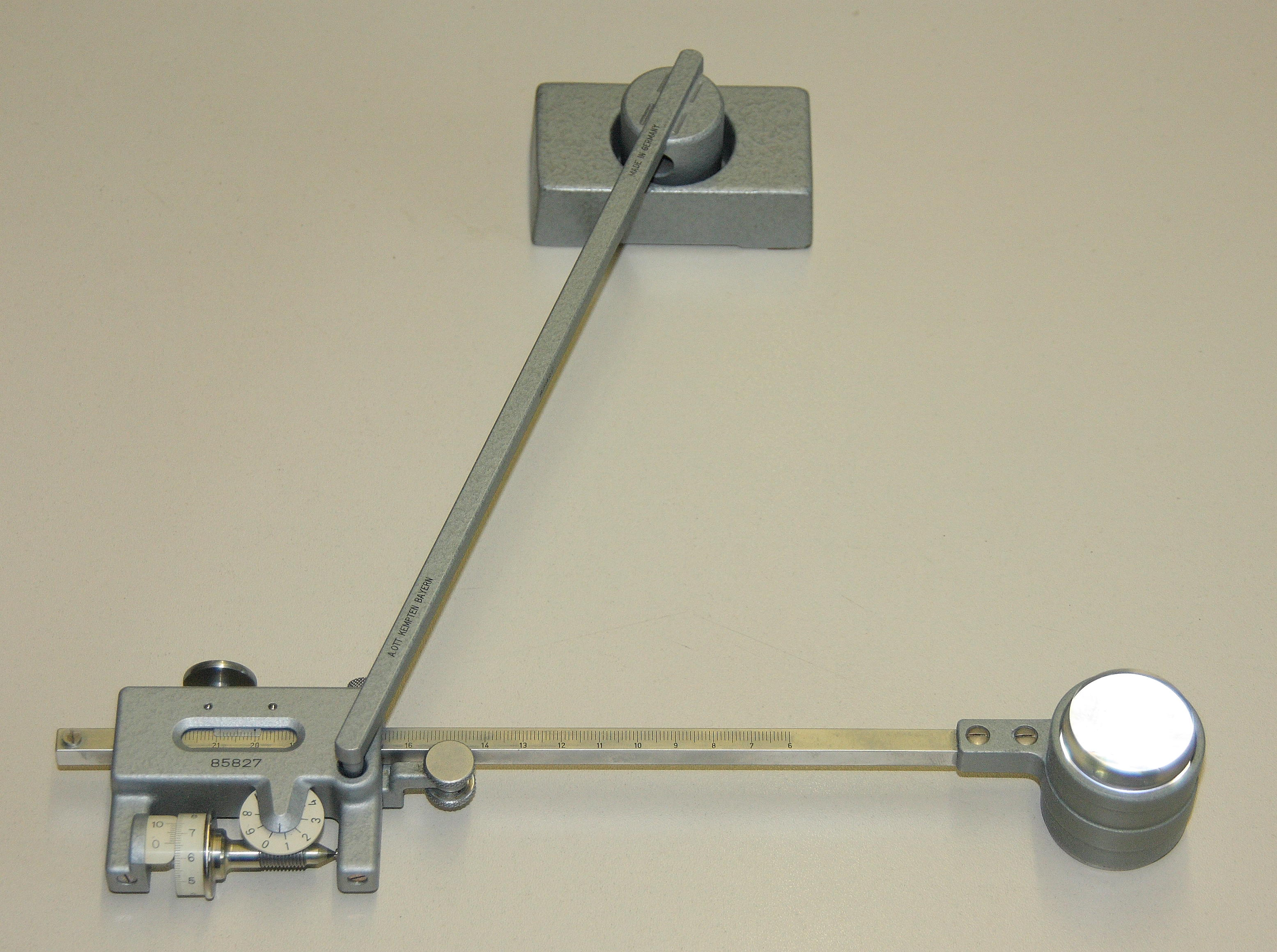 Polarplanimeter for the graphical calculation of areas out of maps.